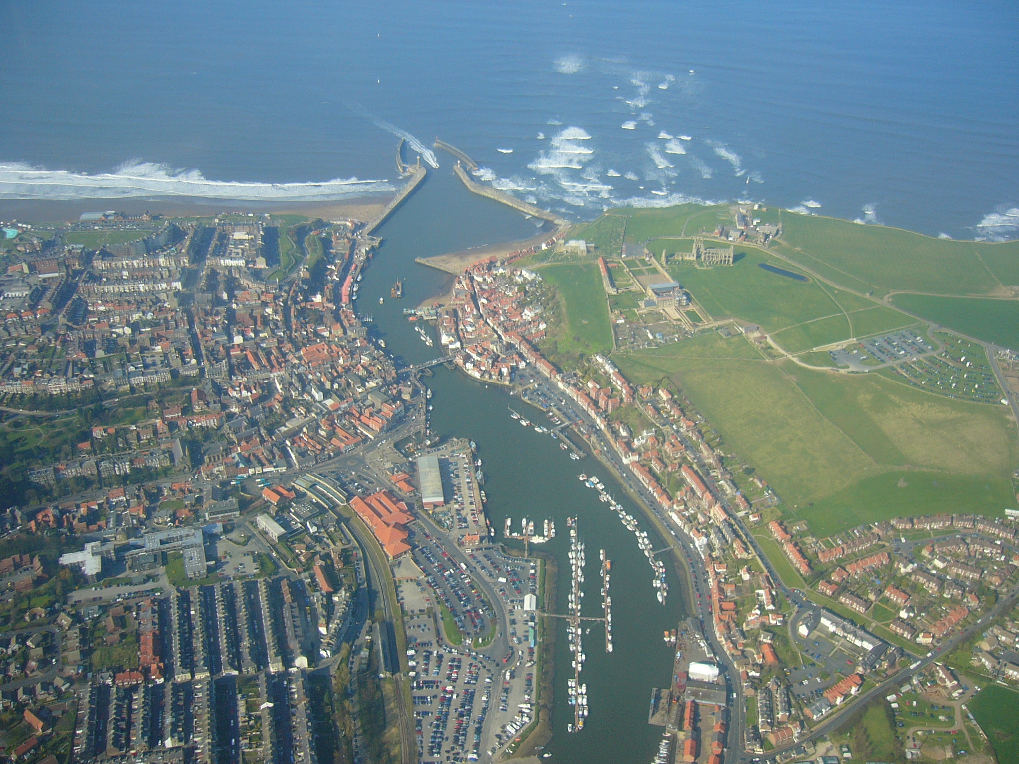 Aerial photo of Whitby in North Yorkshire on the northeast coast of England. The River Esk flows eastward into the North Sea.